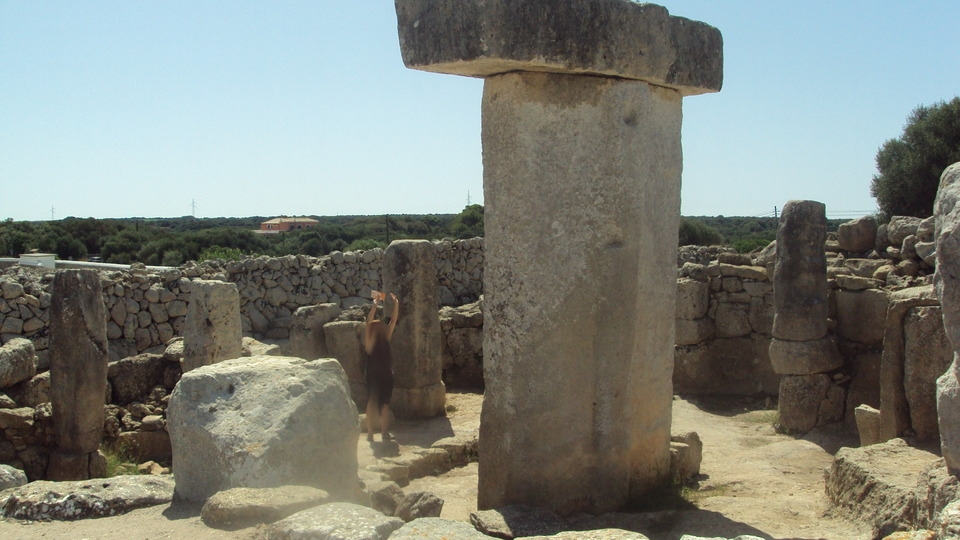 Talaiotic megalith from Torralba d´en Salort, Menorca